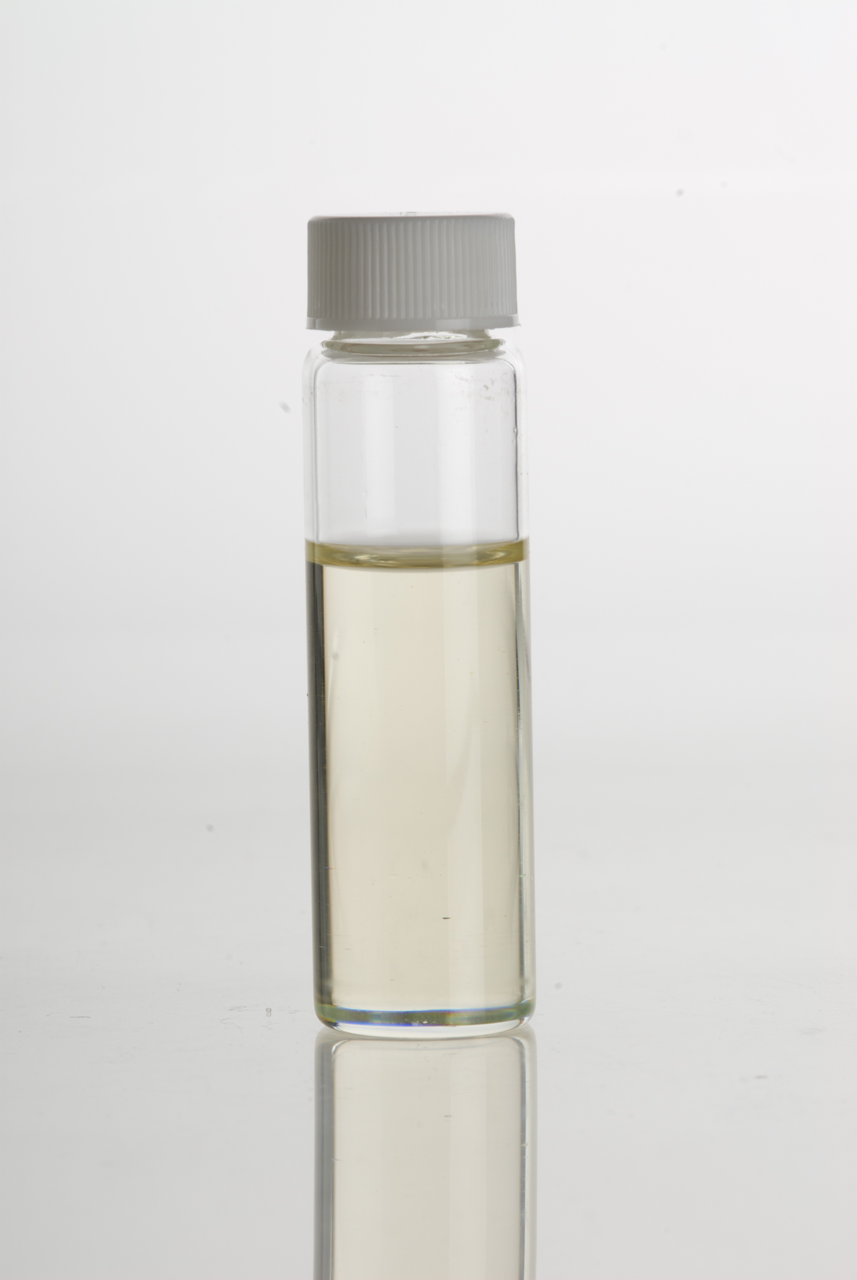 Palo Santo (Bursera graveolens) Essential Oil in clear glass vial